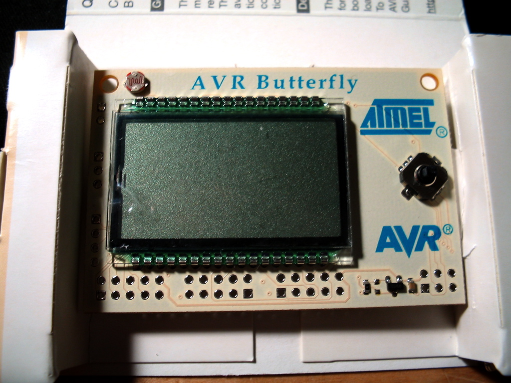 AVR Butterfly microcontroller evaluation module.